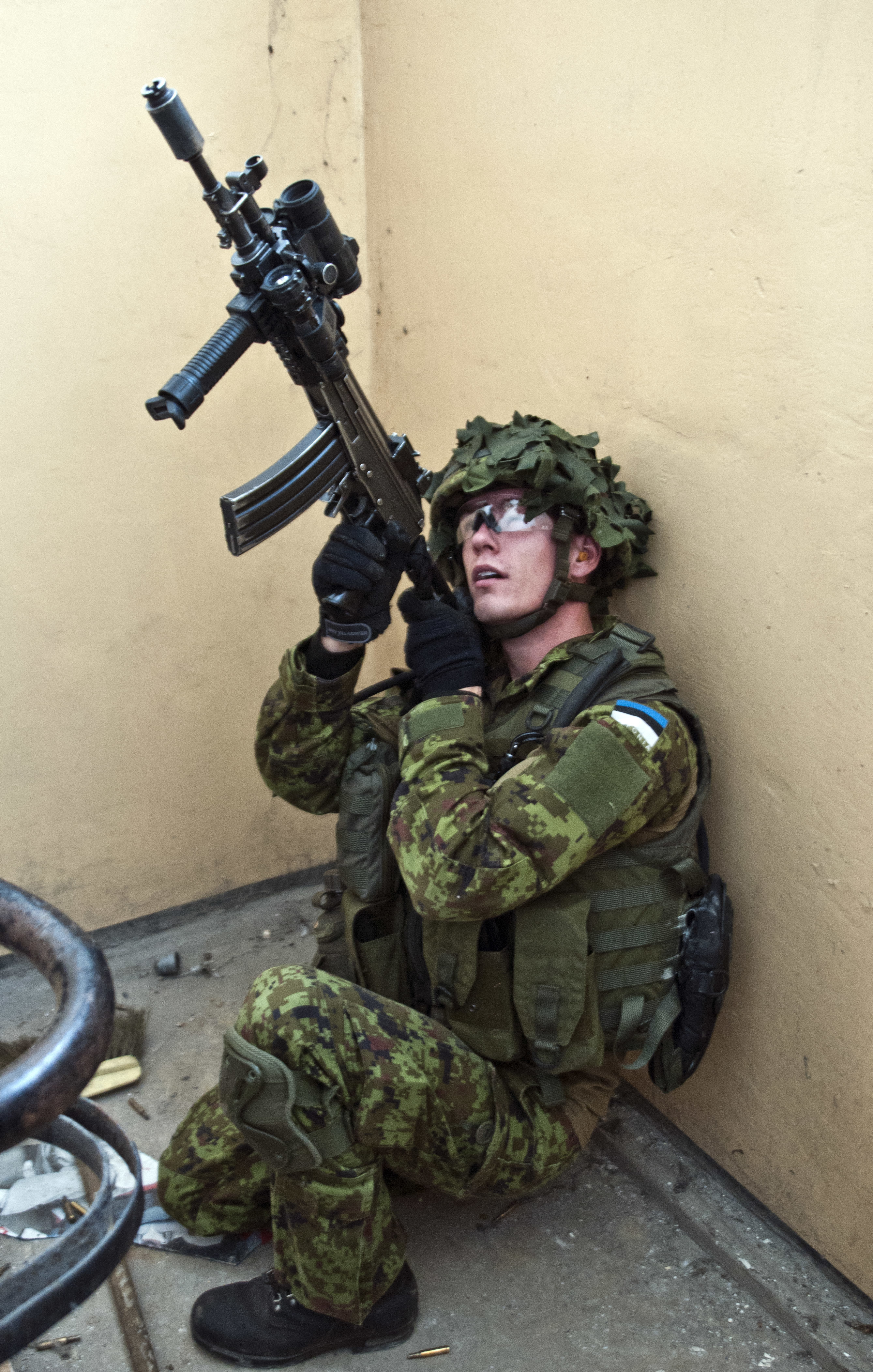 An Estonian Defense Forces soldier from Company C, Single Scouts Infantry Battalion looks up a stairwell in search of soldiers role-playing as insurgents Sep. 4 at Murru Vangla, an abandoned prison in Rummu, Estonia. The Estonian Scouts Battalion rehearsed with American paratroopers from the 173rd Airborne Brigade in preparation for a night raid training mission at the prison. The raid was part of Steadfast Javelin II, a NATO exercise involving more than 2,000 troops from nine nations conducting various training missions across Estonia, Germany, Latvia, Lithuania and Poland. The exercise focuses on increasing interoperability and synchronizing complex operations between allied air and ground forces through airborne and air assault missions.